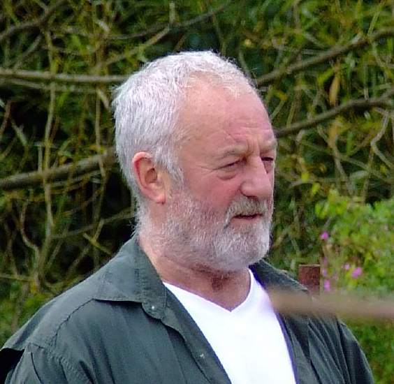 Bernard Hill, British actor who was Theoden in the Lord of the Rings films.